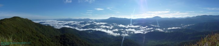 Sea of Clouds of the Sierra Madre Mountain Range as seen from a peak of Mount Oriod